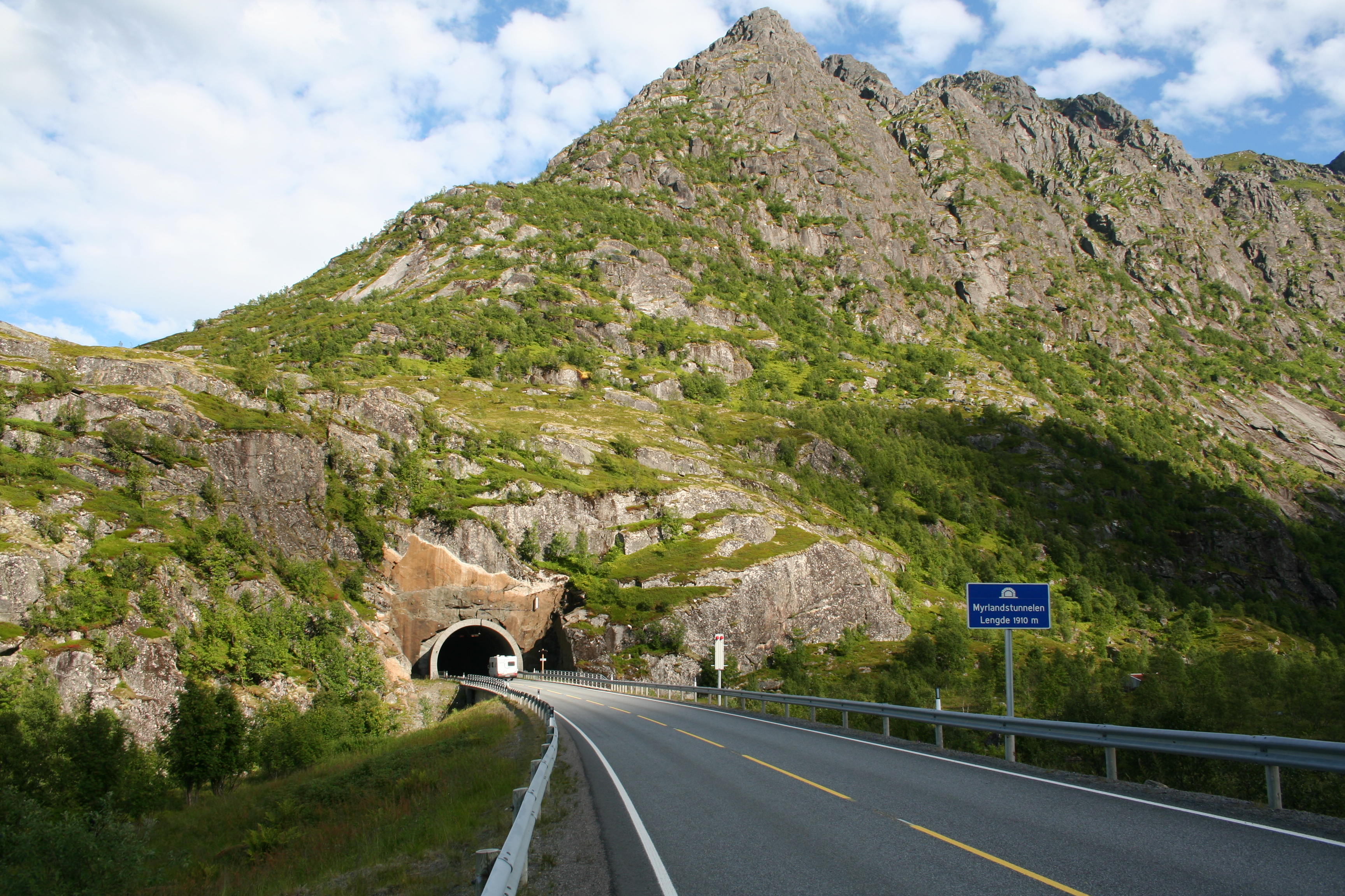 The west portal of Myrland Tunnel on the new road to Lofoten. The tunnel is 1966 metres long.